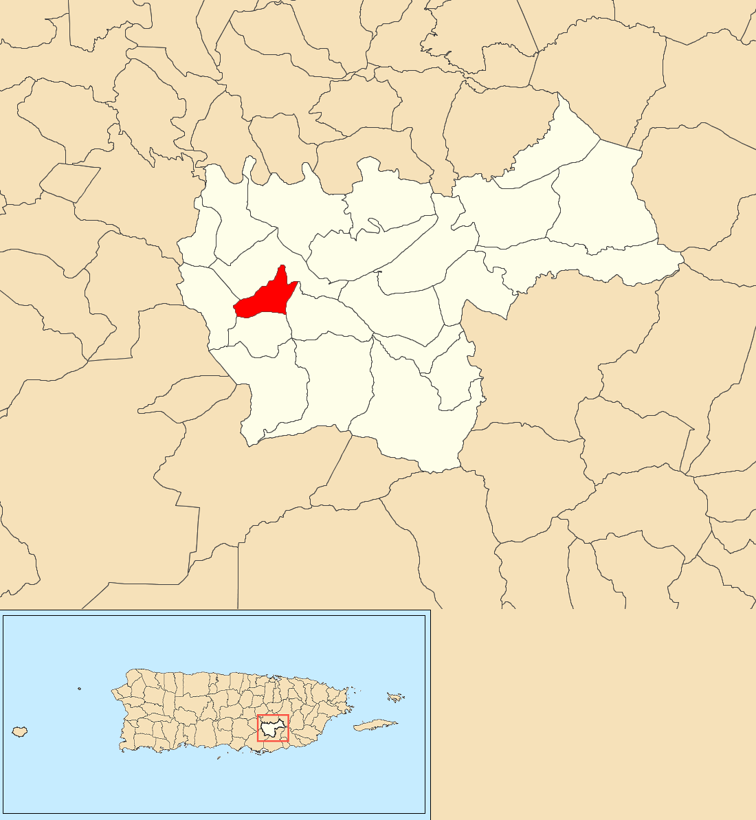 Pedro Avila, Cayey, Puerto Rico locator map